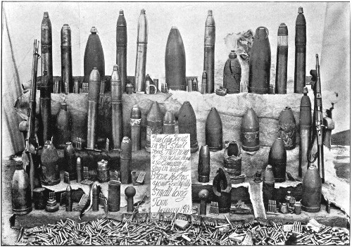 Varieties of Ammunition collected at Ladysmith, frontispiece to "The Project Gutenberg EBook of Surgical Experiences in South Africa, 1899-1900, by George Henry Makins"